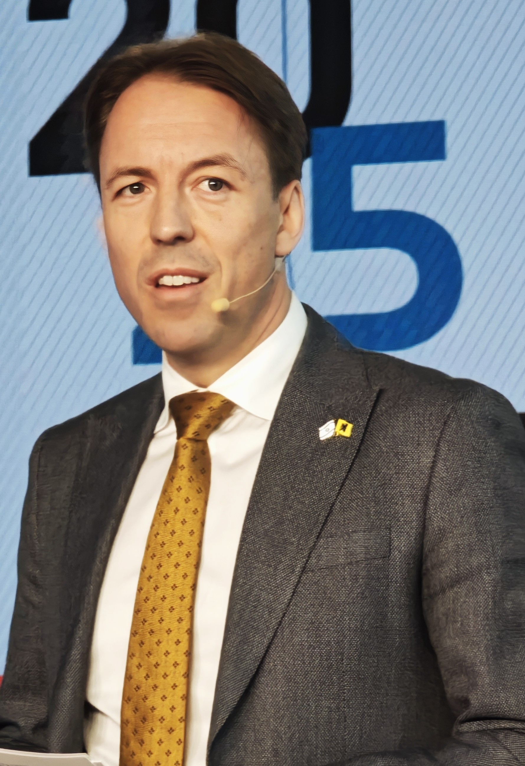 Sam van Rooy, Flemish representative of Vlaams Belang, in the Flemish Parliament (Brussels)